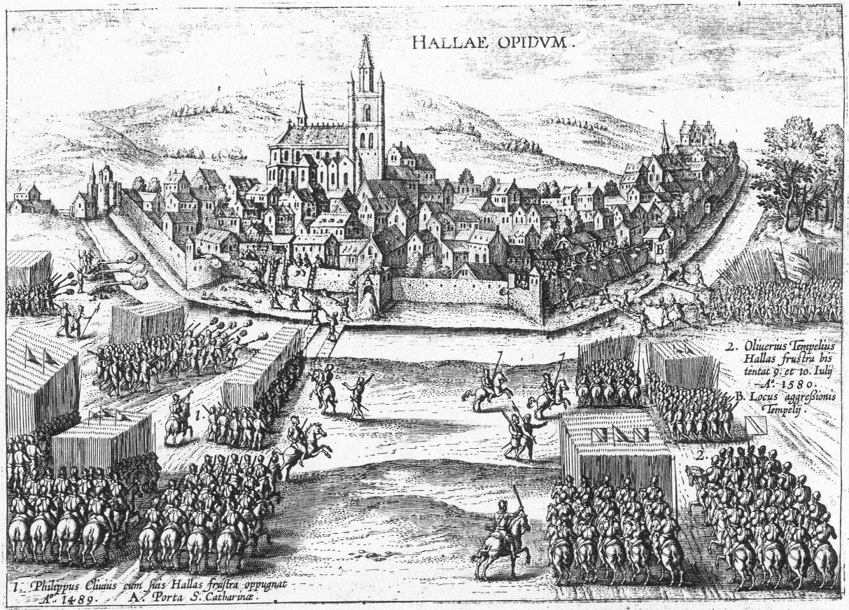 Halle has been beseiged twice (anachronistical depiction in Justus Lipsius' Diva Virgo Hallensis Scan from privately owned document.